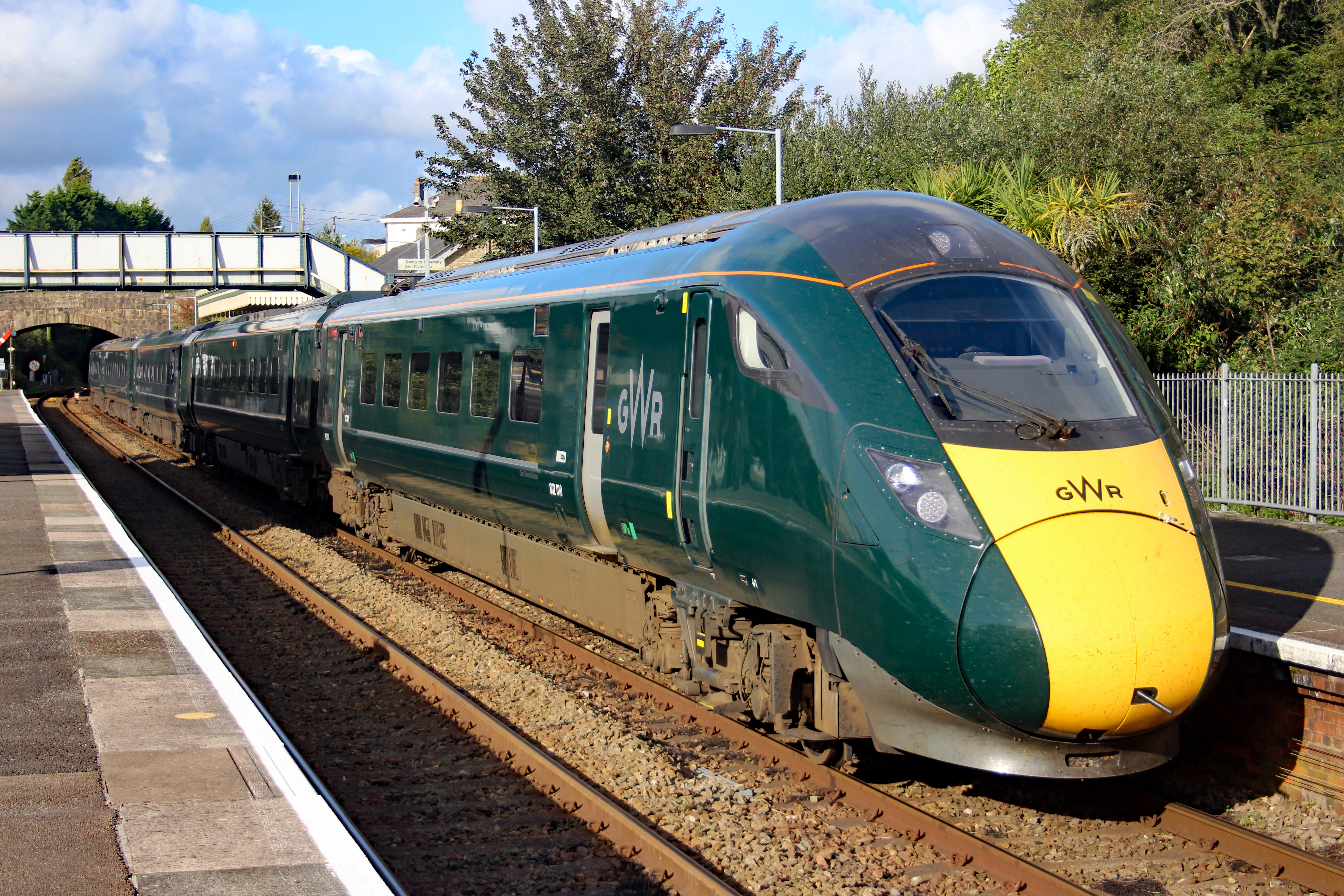 Class 802 unit number 802010 of Great Western Railway sits at Par, working a five car train down to Penzance.